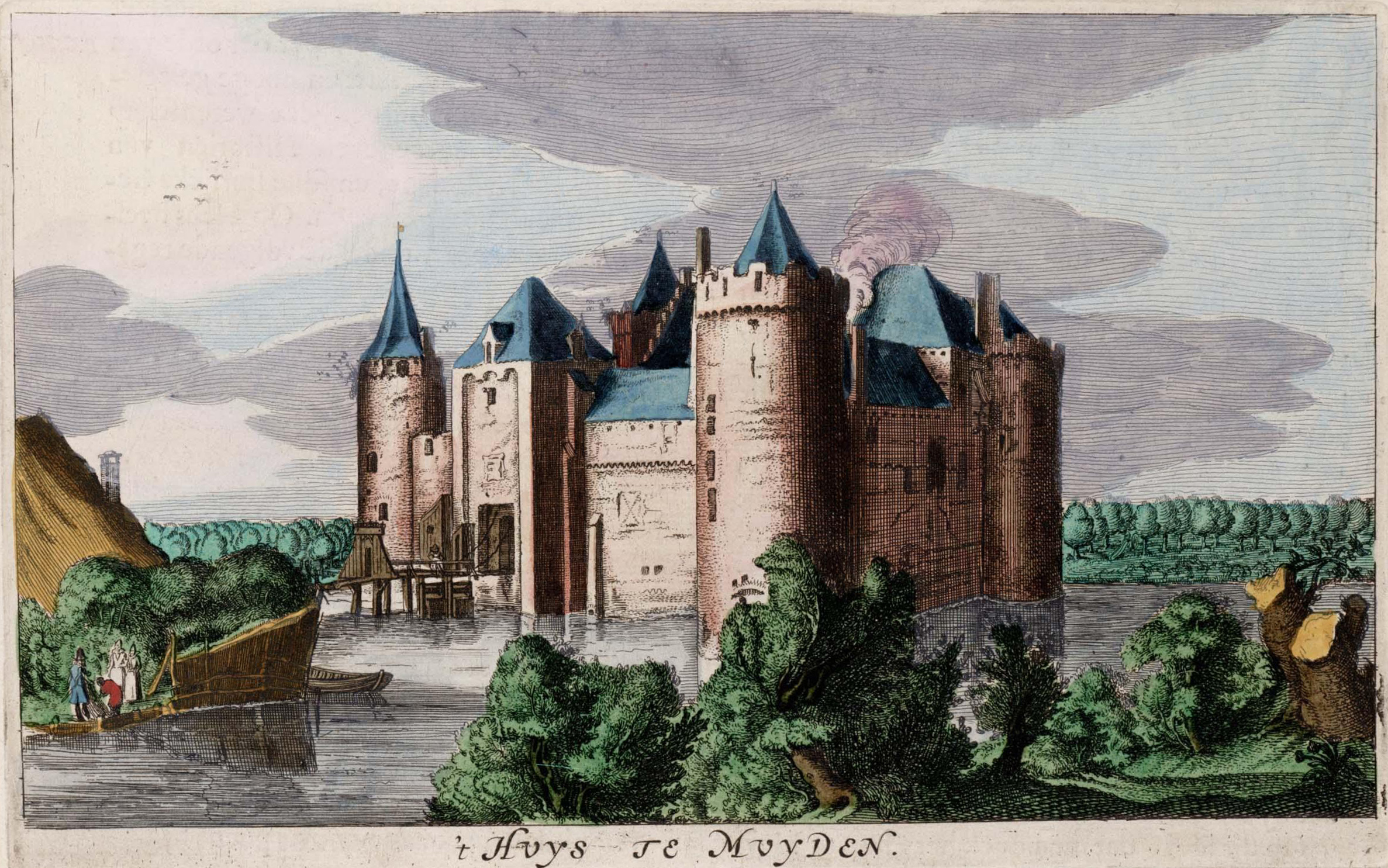 The castle Muiderslot, near Muiden, the Netherlands.